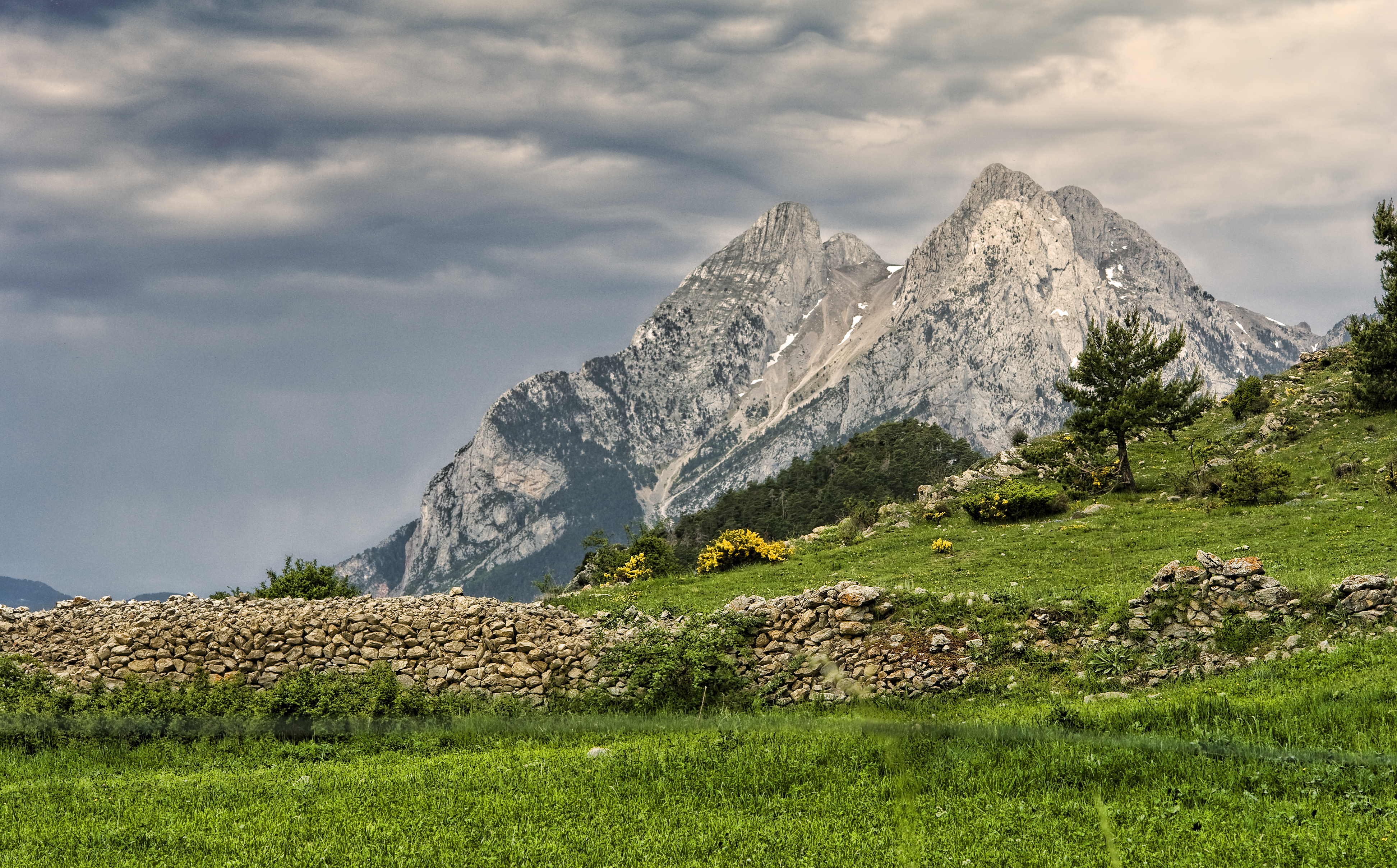 Pedraforca, Nature Park Cadí-Moixeró This is a a photo of a geologic site or geotope in Catalonia, Spain, with id: IEIGC-145